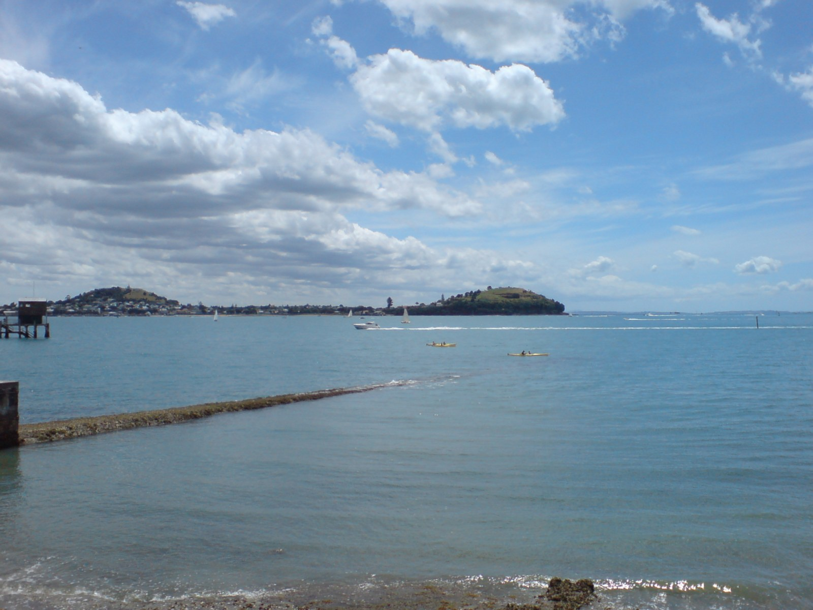 North Head, North Shore City as seen from the south from Tamaki Drive, Auckland City, New Zealand. To the west, Mount Victoria is visible.